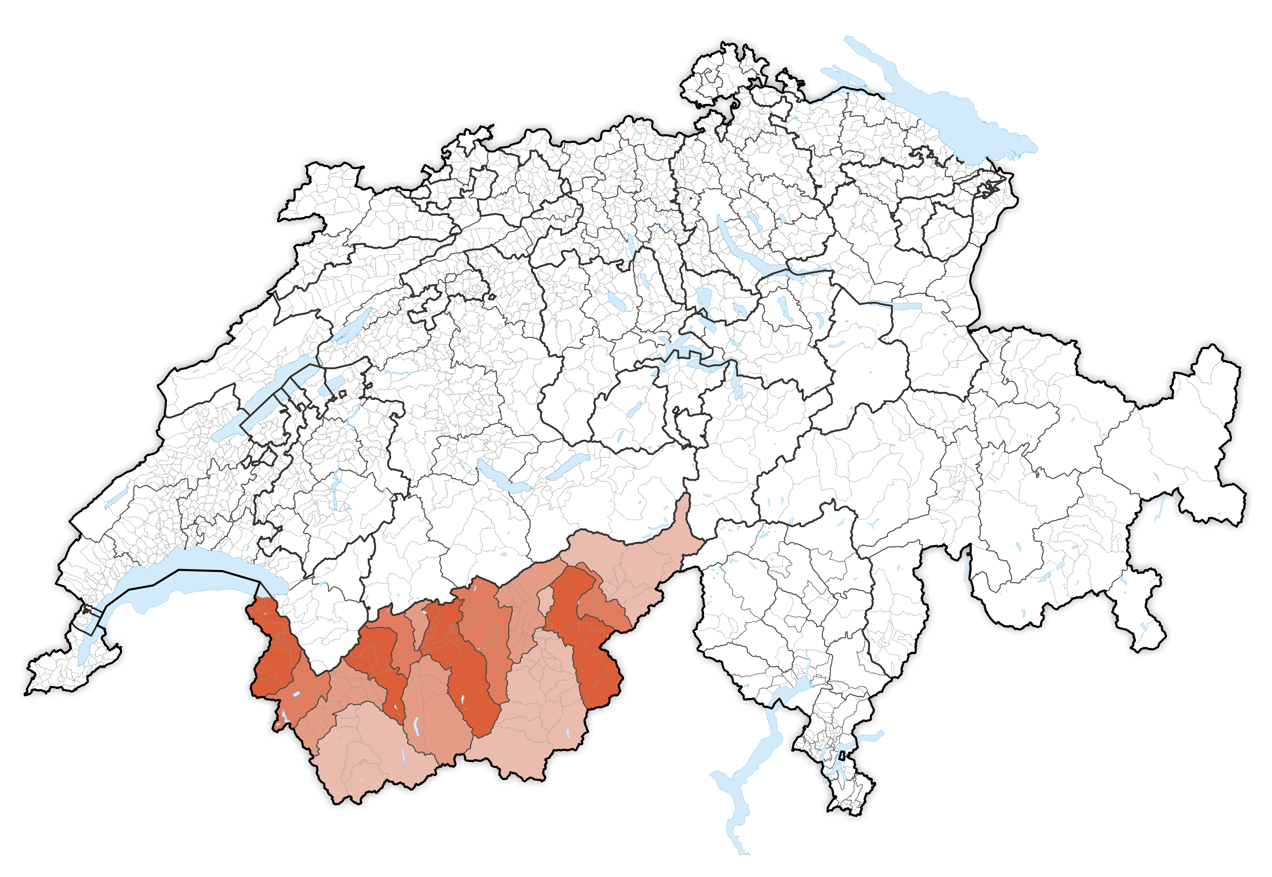 Canton Wallis